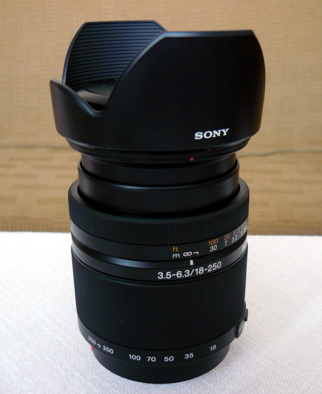 Sony AF DT 18-250 mm f/3.5-6.3 lens.